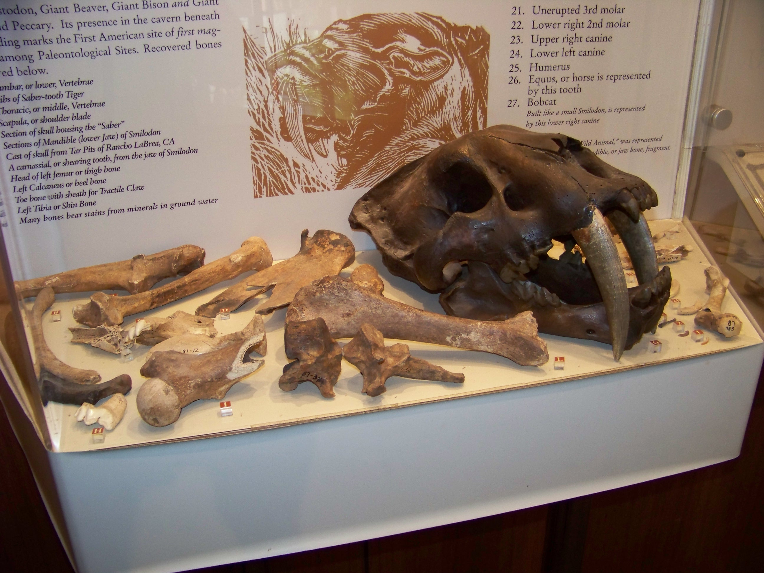 Detail of saber tooth remains on display in the Regions Center building (now UBS Tower) in downtown Nashville.